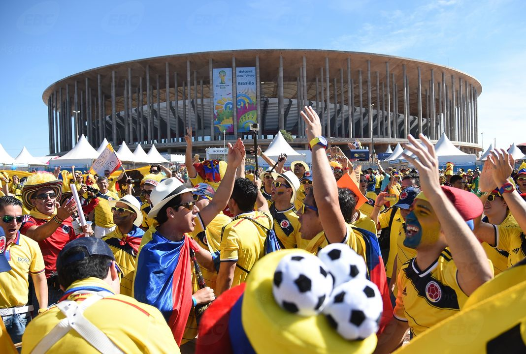 Colombia fan.